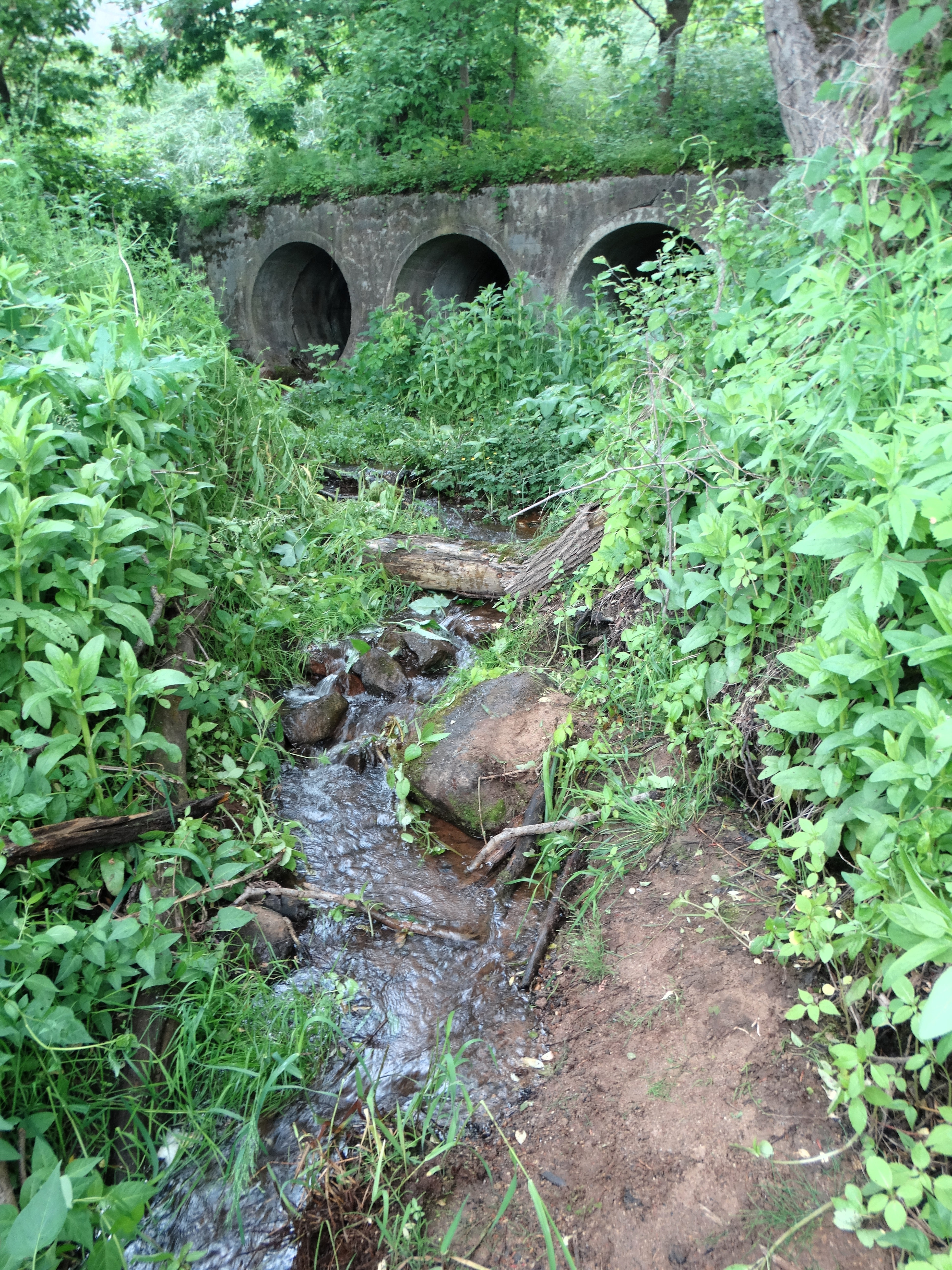 Lankis, tributary of Neris, Jonava, Lithuania